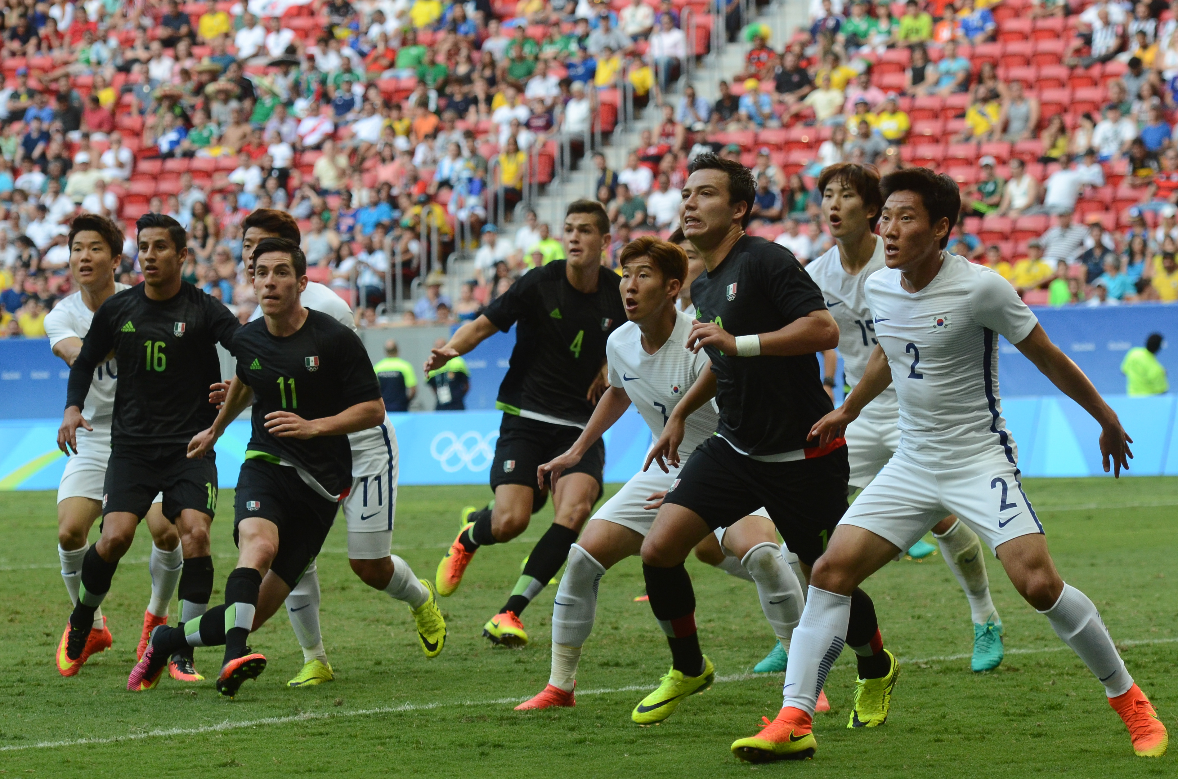 Brasília - Equipes masculinas do futebol olímpico da Coreia do Sul e México jogam no Estádio Mané Garrincha (Gustavo Gomes/Agência Brasil)